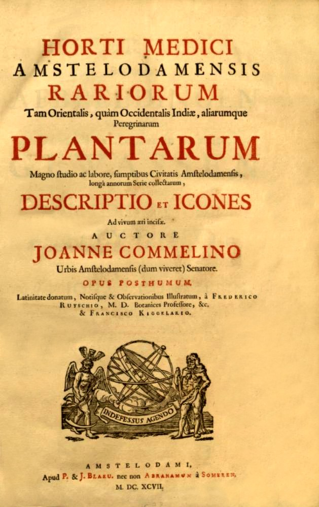 Front cover of "Horti Medici Amstelodamensis Rariorum"